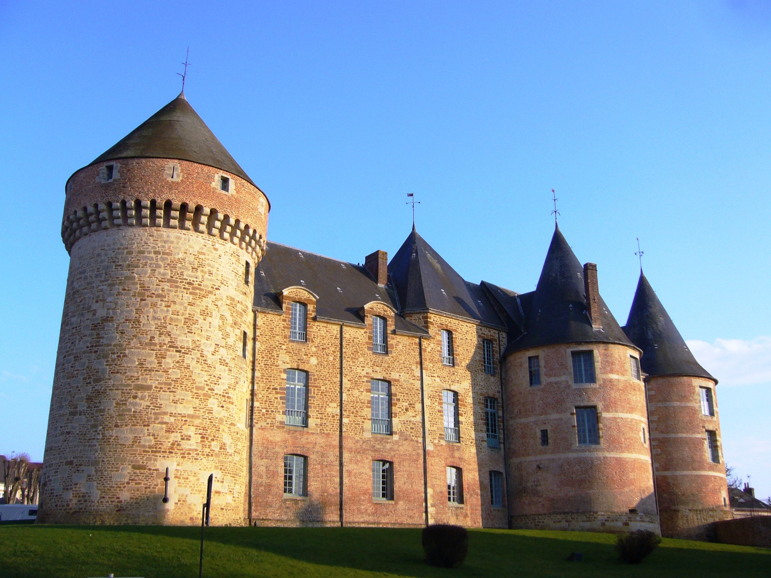 Medieval Castle of Gacé, Normandy